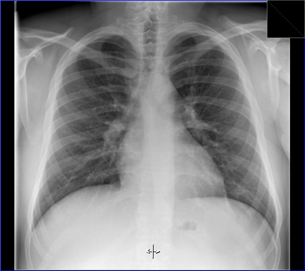 x-ray of lung